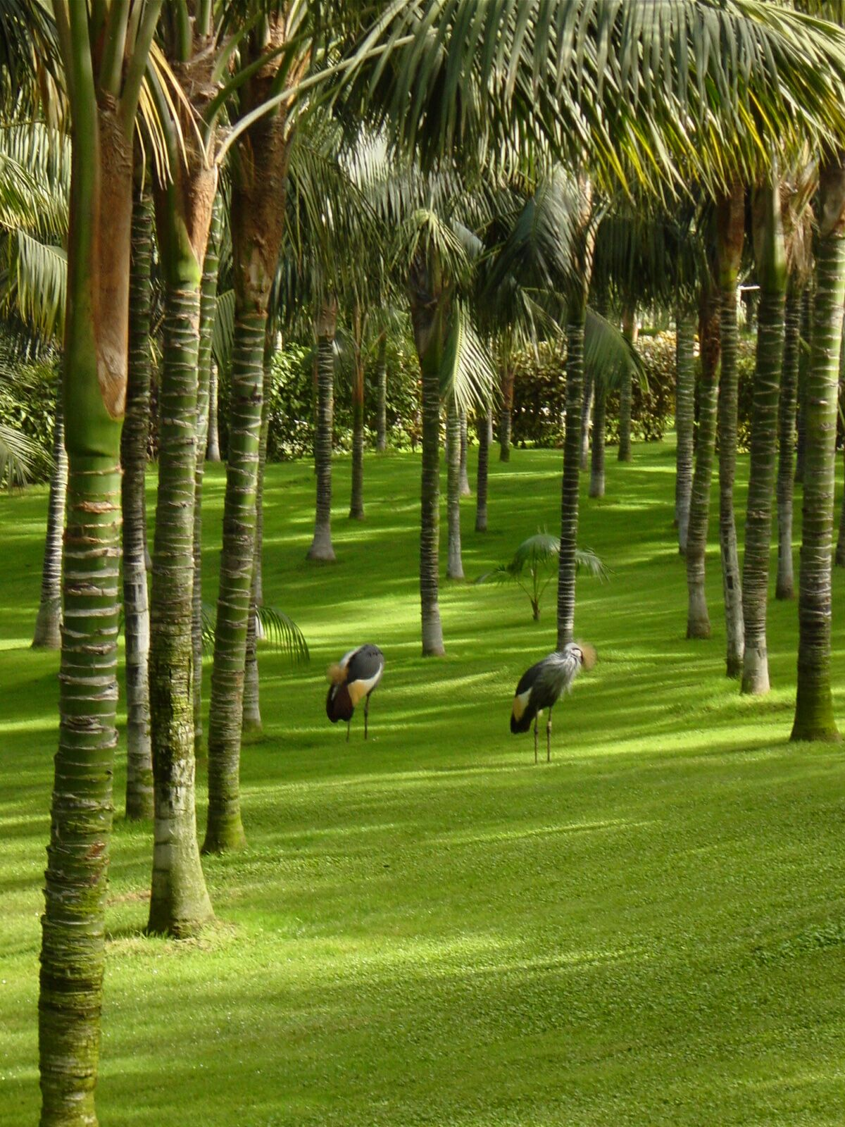 Grey Crowned Cranes in the Loro Parque, Tenerife.